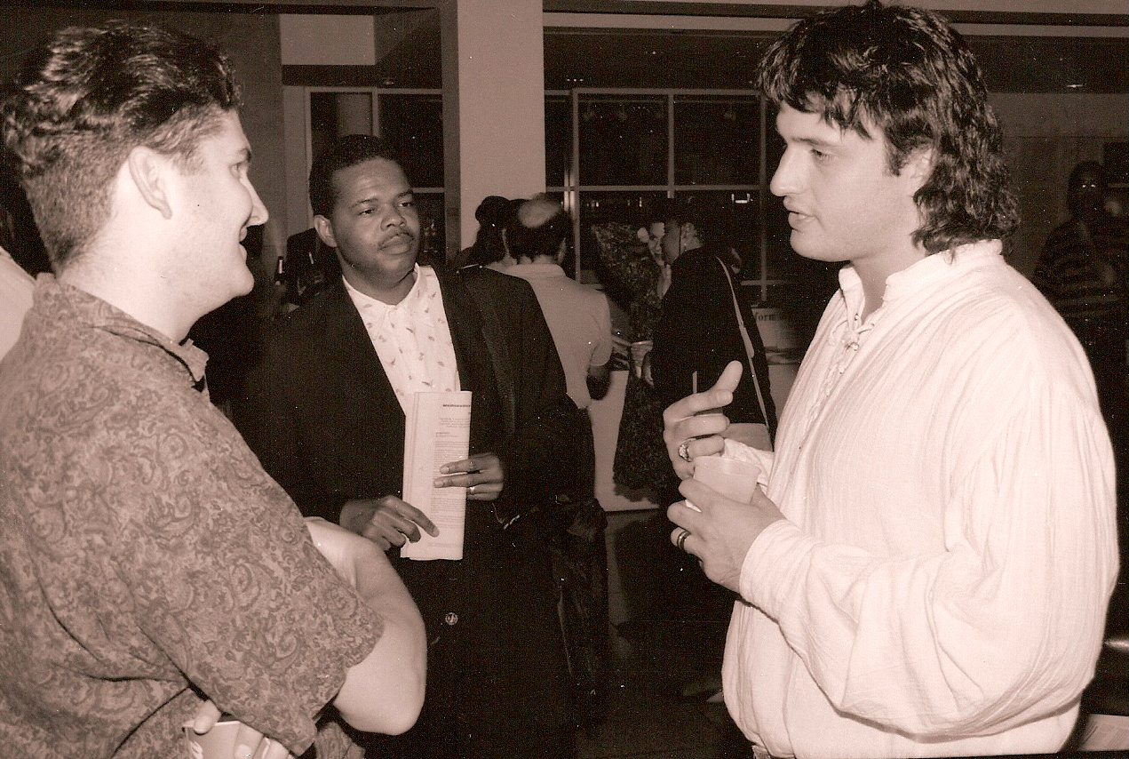 Director Robert Rodriguez at the 1993 Atlanta Film Festival with his breakthrough debut El Mariachi.